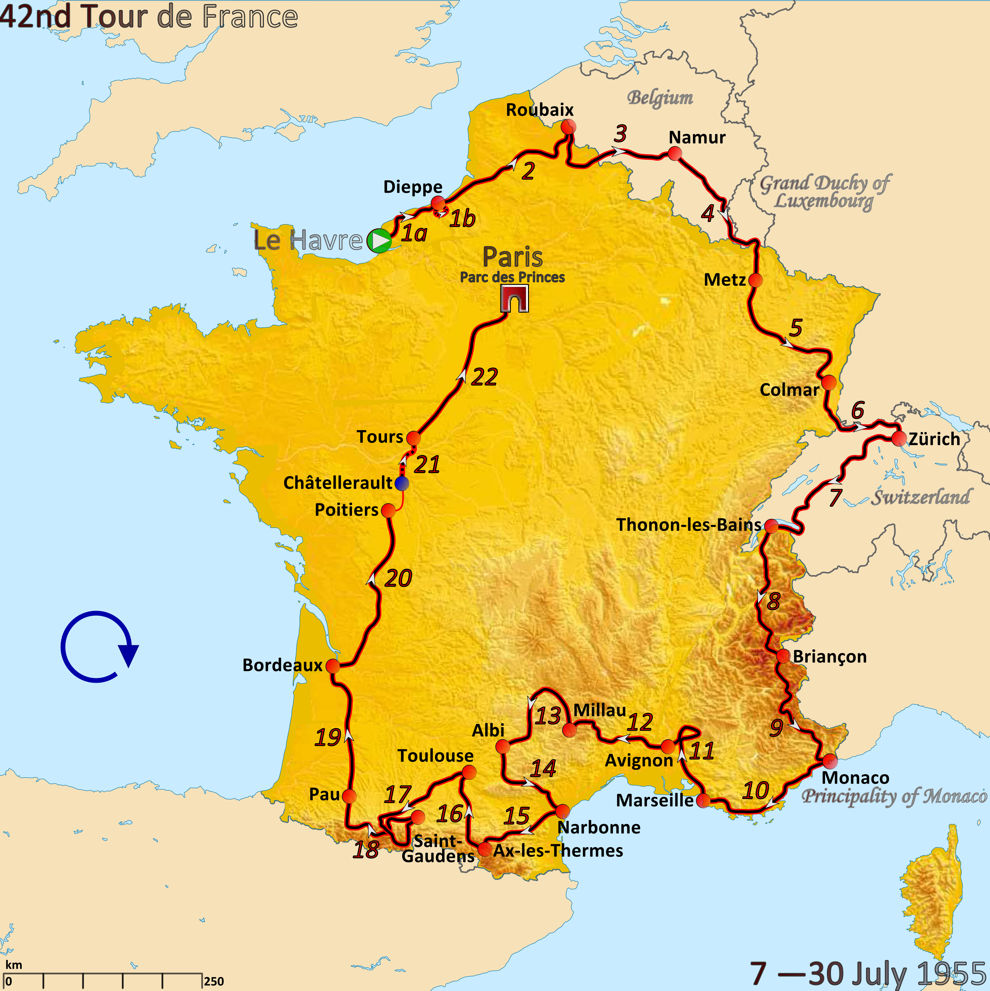 Map of the 1955 Tour de France created in Inkscape using accurate stage maps from touratlas.nl.